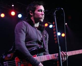 Peter Wentz in concert